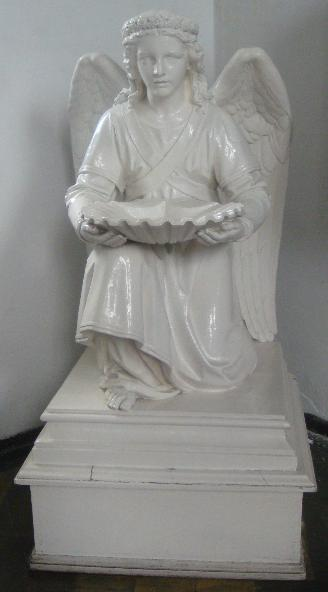 Font representing on knee angel in Our Savior Lutheran Church in Szopienice